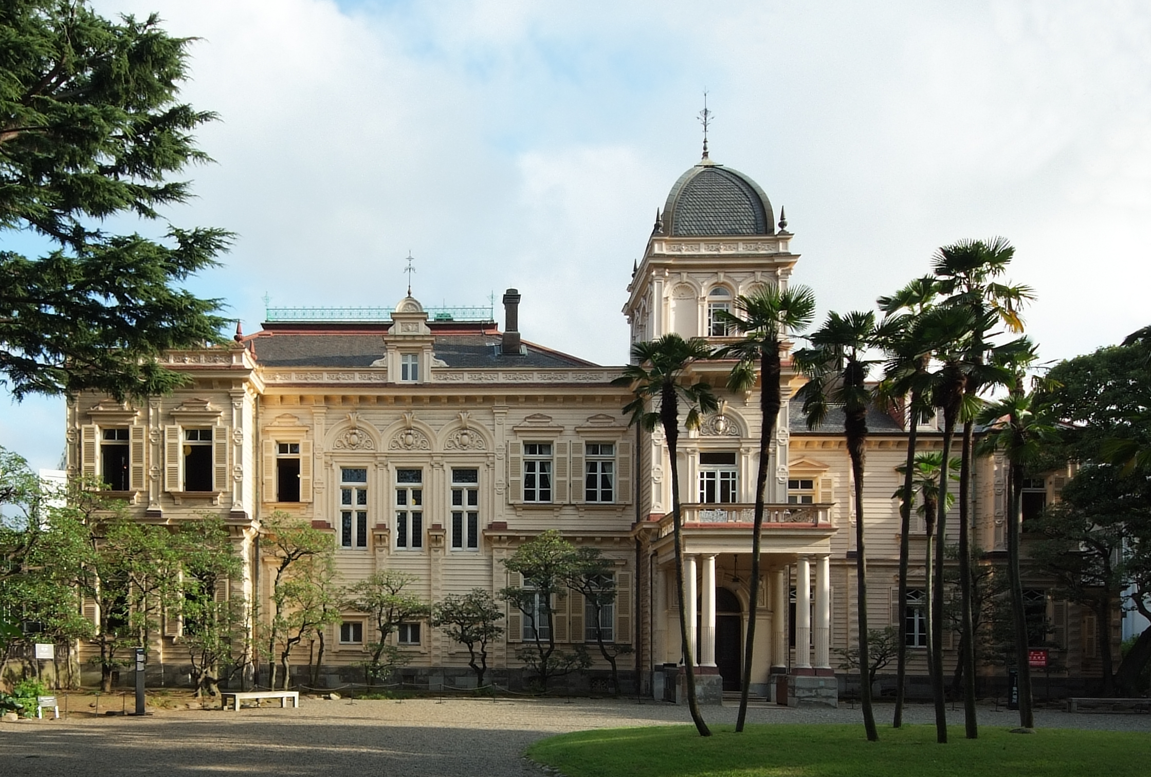 Former Iwasaki Family House and Garden, at Taito-ku Tokyo Japan, designed by Josiah Conder in 1896.